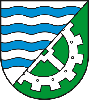 Coat of arms of the municipality Lägerdorf in Schleswig-Holstein, Germany.